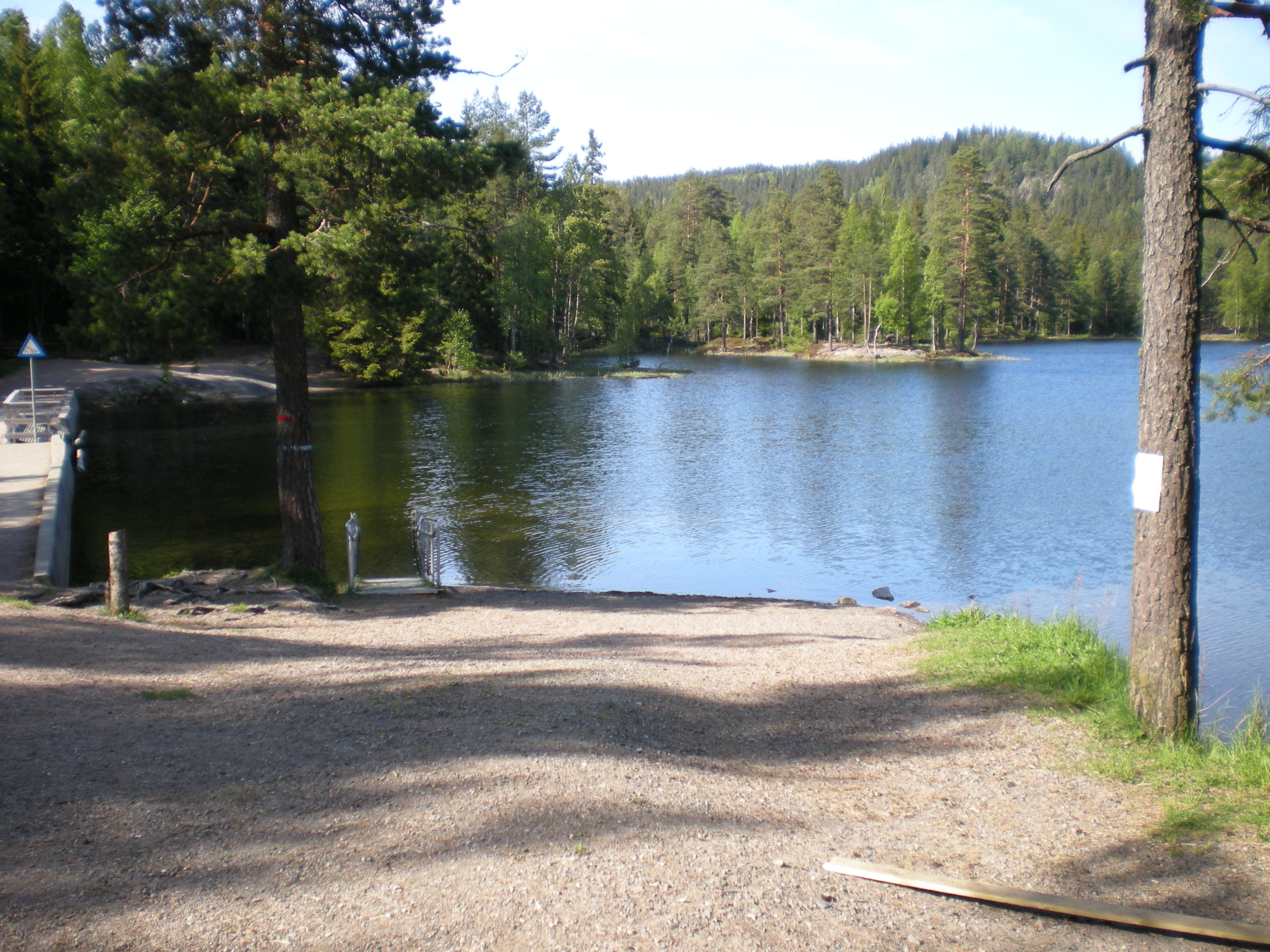 Stromsdammen, pond in Nordmarka, Norway